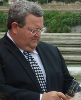 Gerry Brownlee at the Solray Algae to Biofuels opening in November 2009